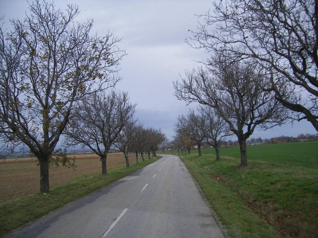 Oponice - Route II/593 near Oponice